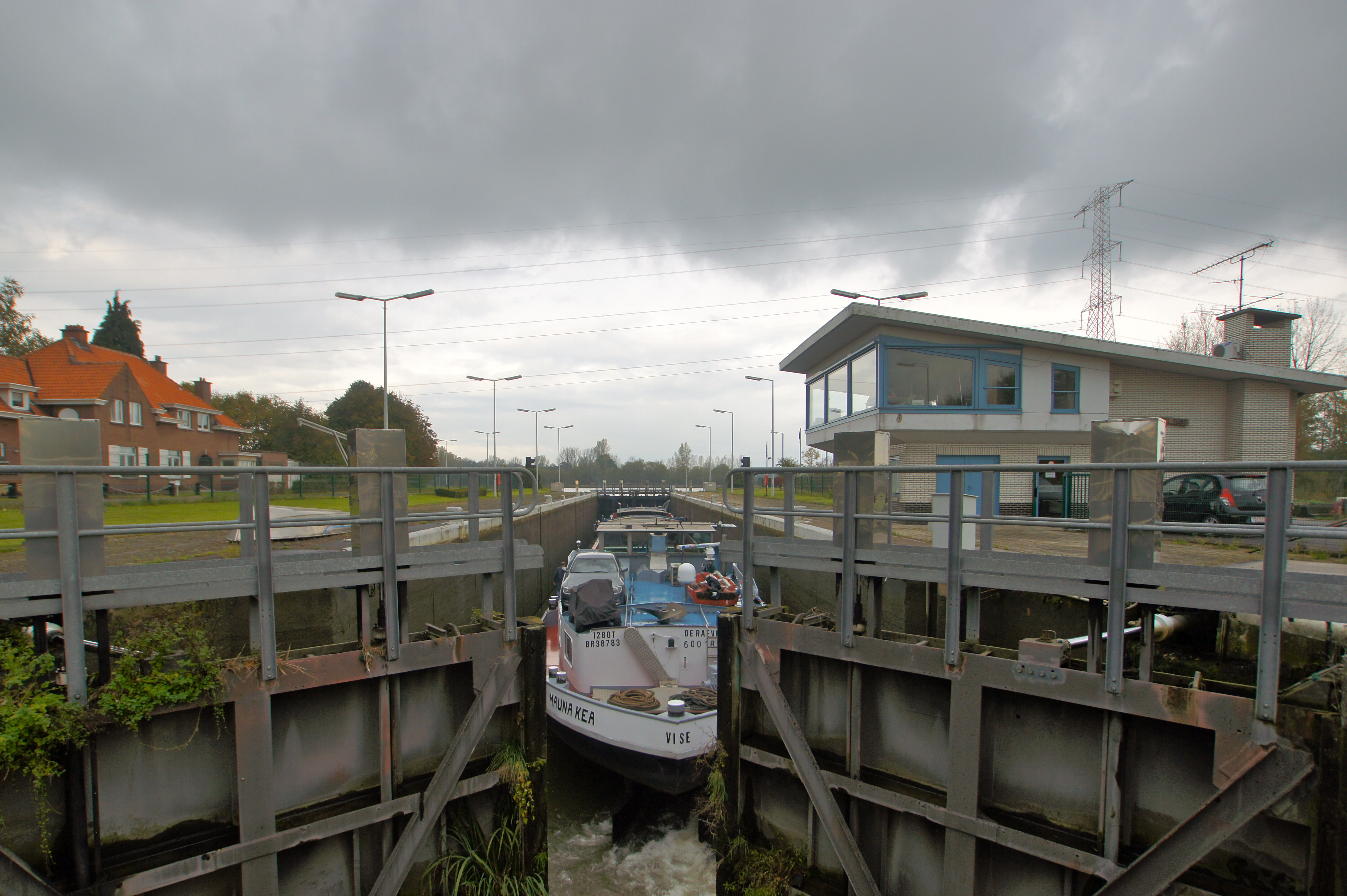 Zandhoven (Viersel), Belgium: The Viersel canal lock on the Netekanaal with the Mauna Kea sailing in direction of the Canal Albert